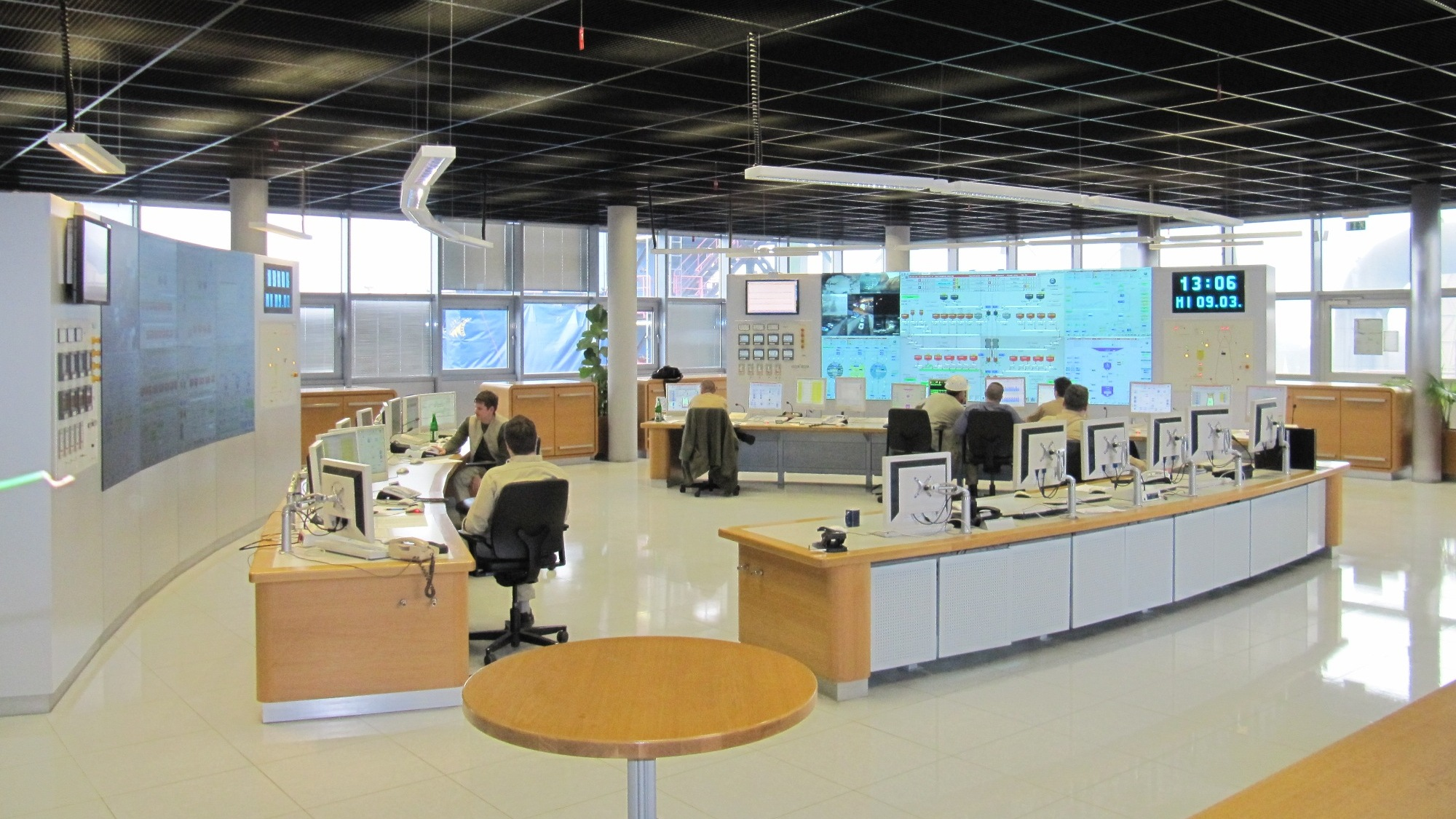 The control room of the blast furnaces HO8 and HO9 at ThyssenKrupp Hamborn, in 2011.